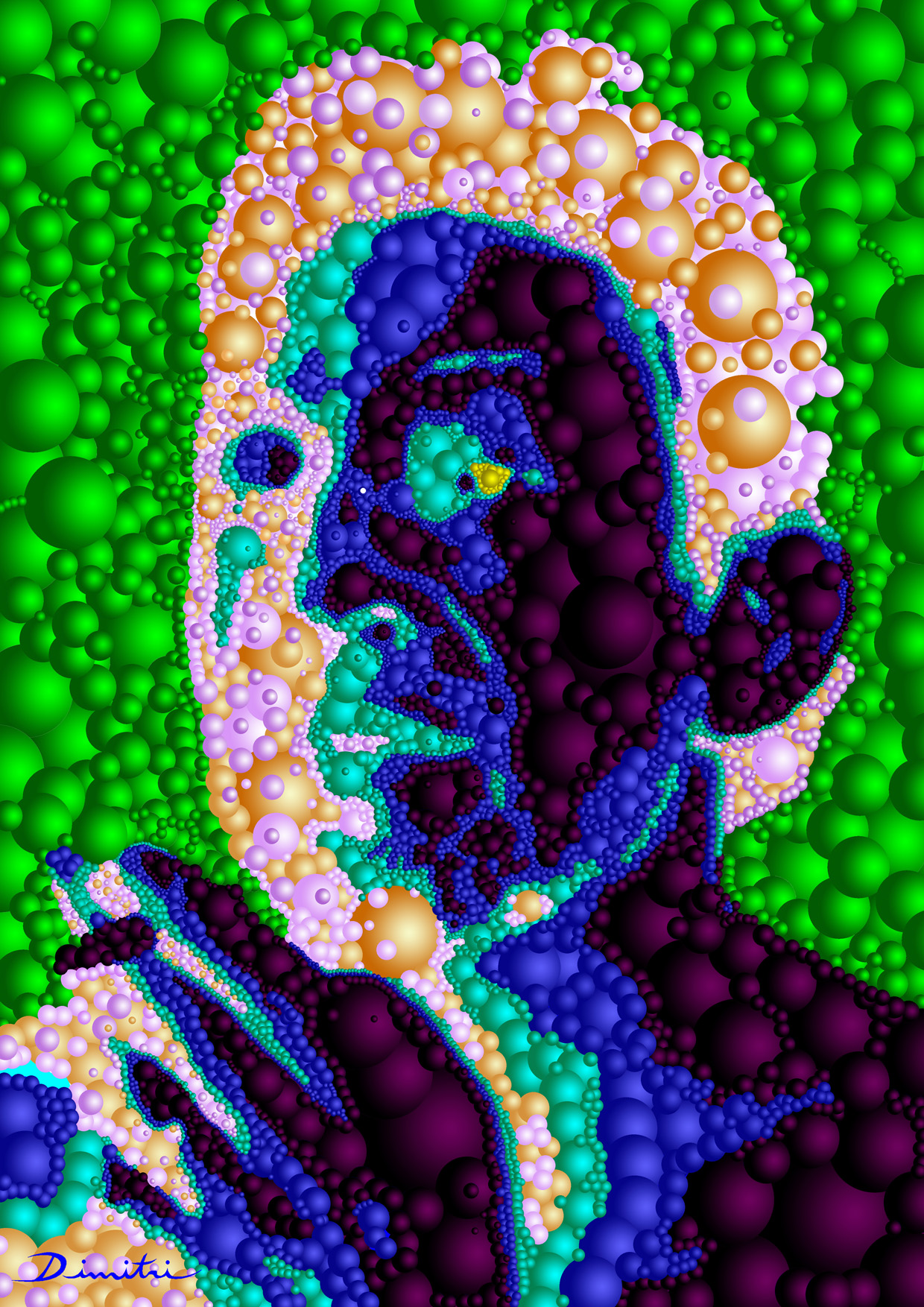 Afterimage by Dimitri Parant (Concentrate 30seconds on the white dot and close your eyes 10 seconds)